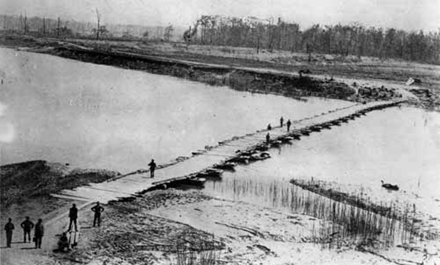 One of the pontoon bridges Gen. Ulysses Grant ordered built across the Big Black River immediately after Maj. Samuel Lockett, the Confederate chief engineer, burned the railroad bridge to allow the a retreat to Vicksburg without Union pursuit. (Photo by Library of Congress)